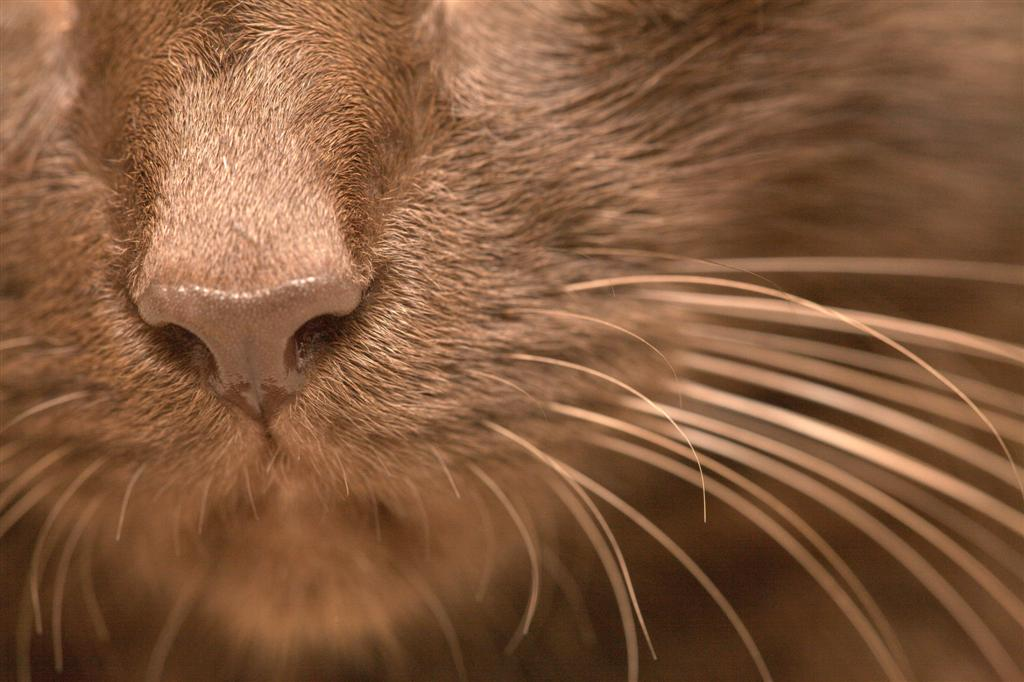 havana browns are the only breed with colored whiskers.